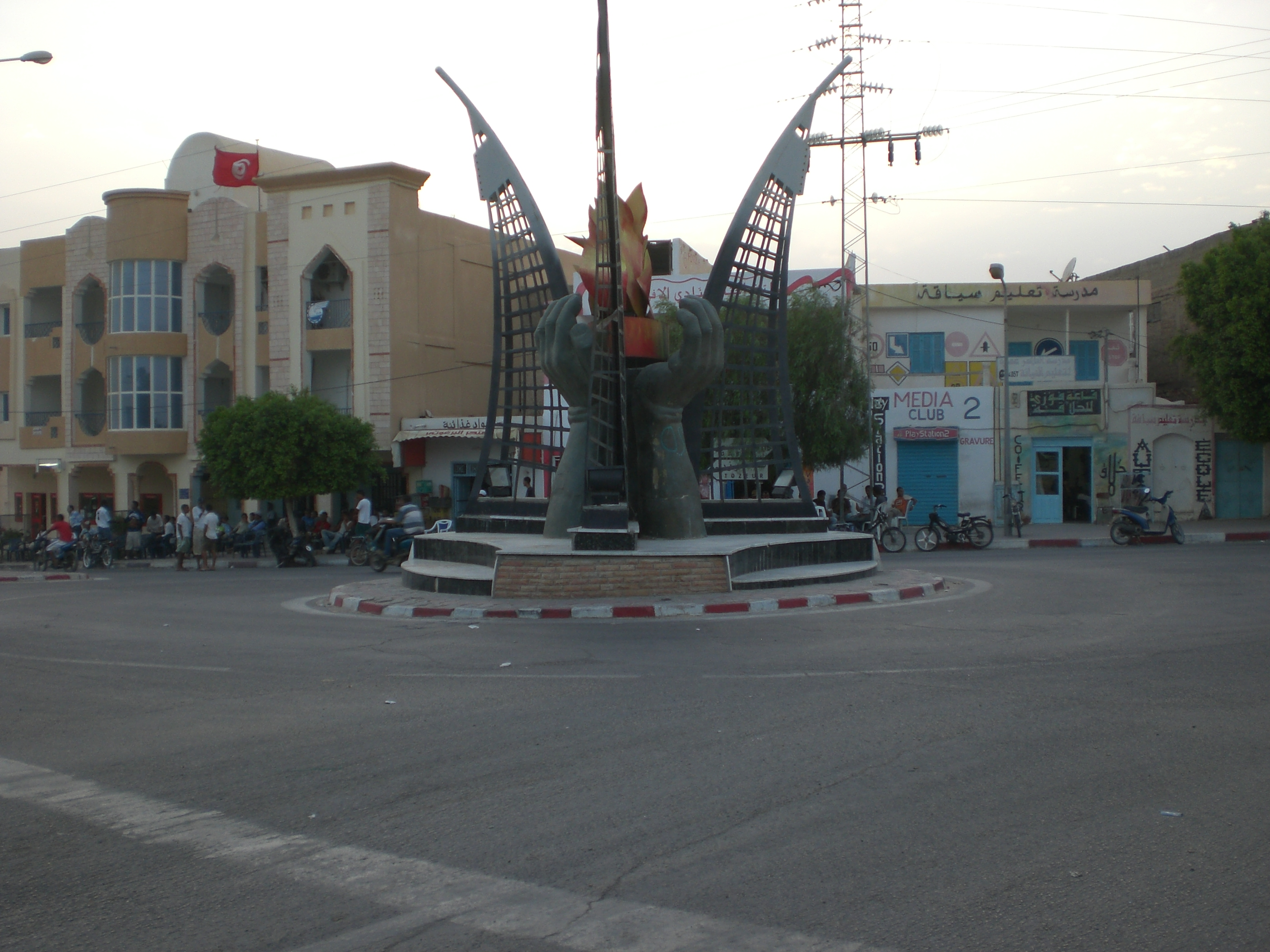 Photo of Kebili, Tunisian town